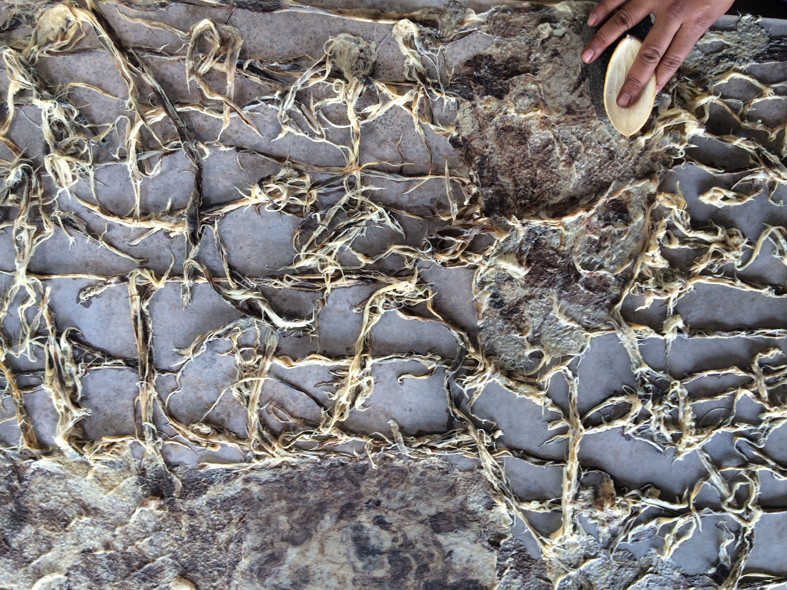 The orange skin in the man's hand is used to smoothen the flattened paper. The partially bleached fibers will give the paper a marbled look.